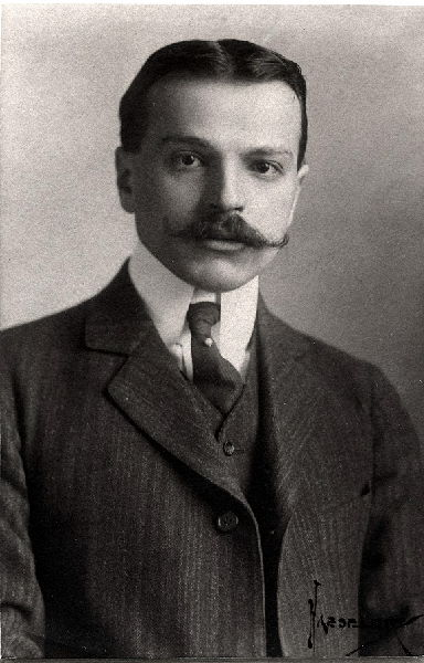 Portrait of Paul Philippe Cret